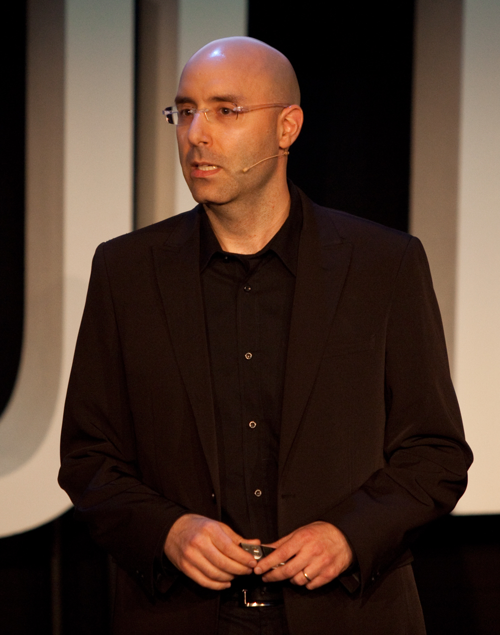 Gulltaggen is the Nordic countries and Norway´s most important conference and award show for digital marketing. This year more than 1.800 participants visited Gulltaggen. Gulltaggen is organized by the non-profit trade organization INMA / IAB Norway. Photo credits: INMA/Jarle Naustvik